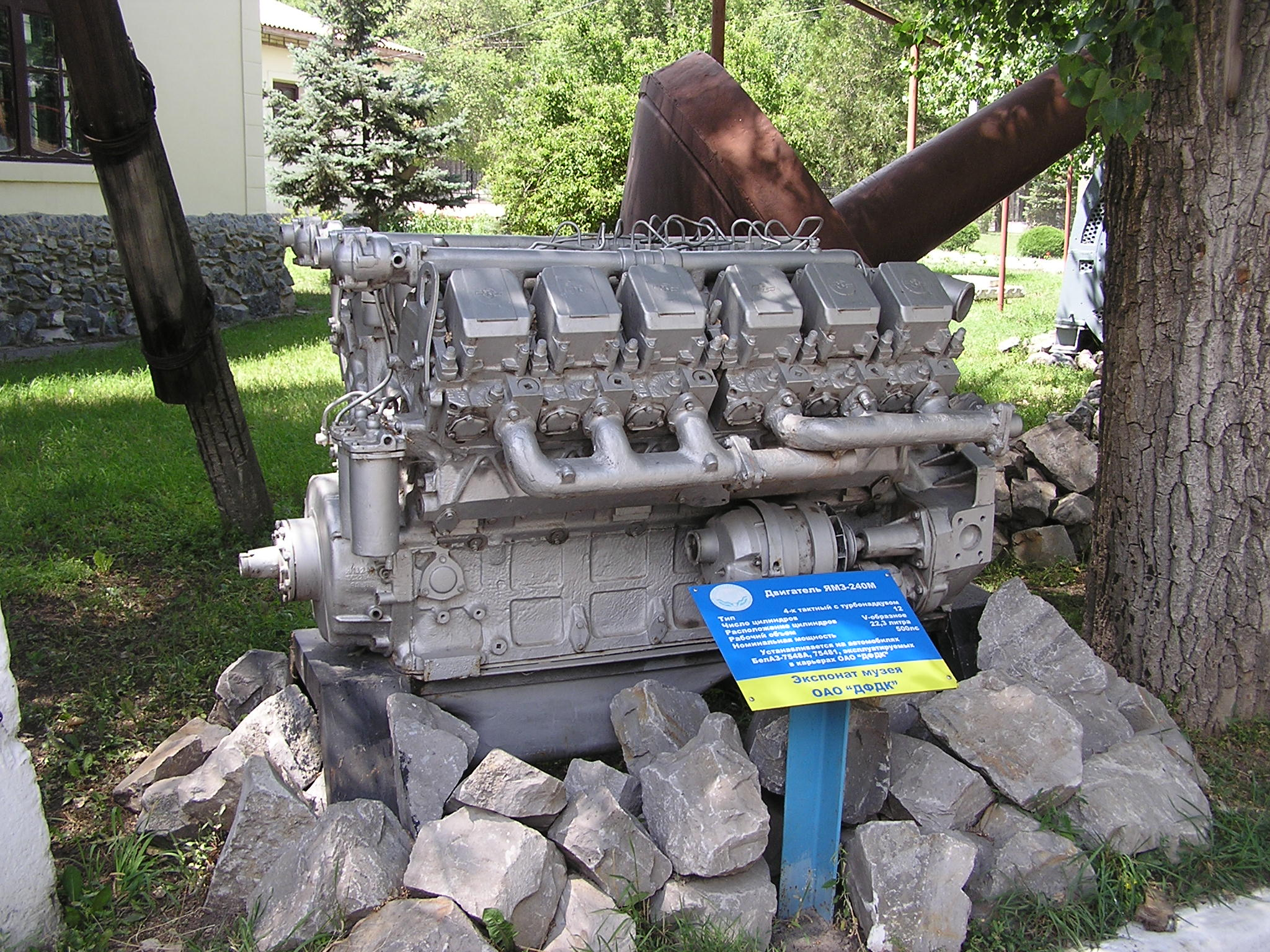 YaMZ-240M engine at Museum of Dokuchaevsk flux-dolomite сombined plant